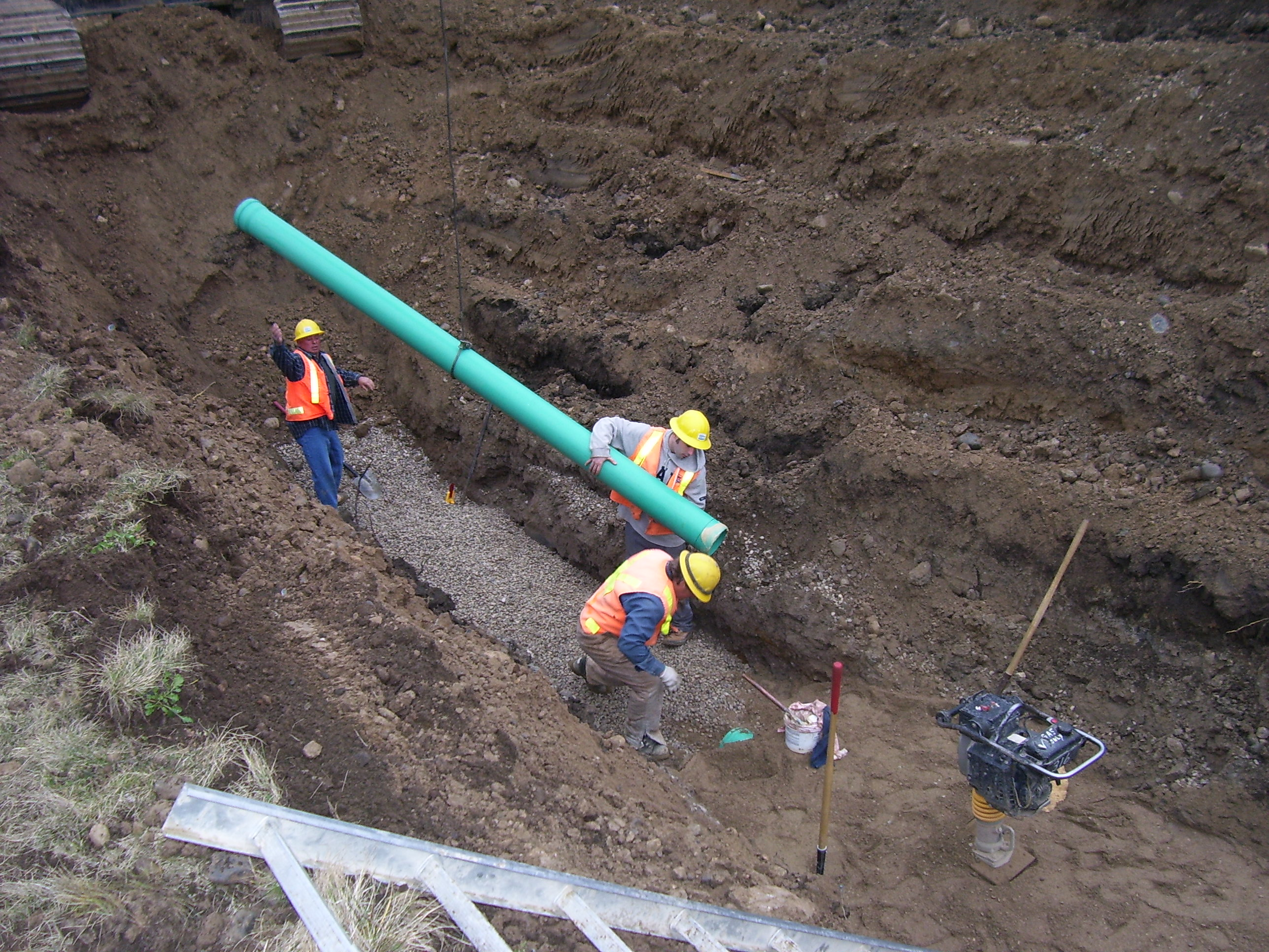 Conventional PVC sanitary sewer installation in Ontario, Canada.